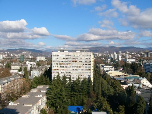 View on the central district of Sochi